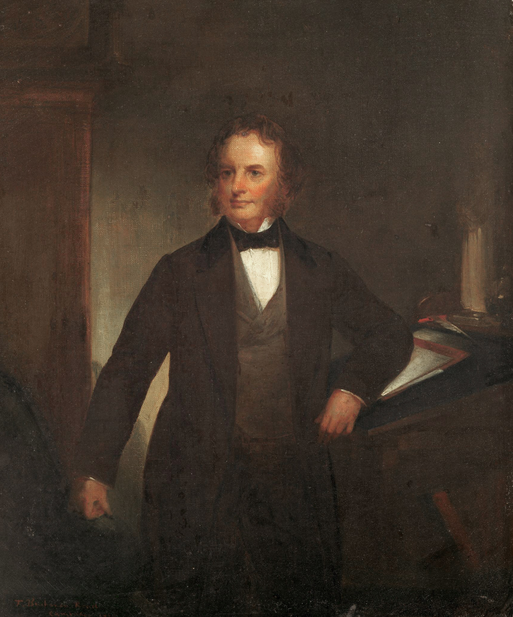 Three-quarter portrait painting of American poet Henry Wadsworth Longfellow (1807-1882), facing front, slightly to right, with right arm at side and left arm bend and leaning on a high desk. By American artist Thomas Buchanan Read (1822-1872), dated 1860. Signed and dated on bottom left. *42M-1684, Houghton Library, Harvard University